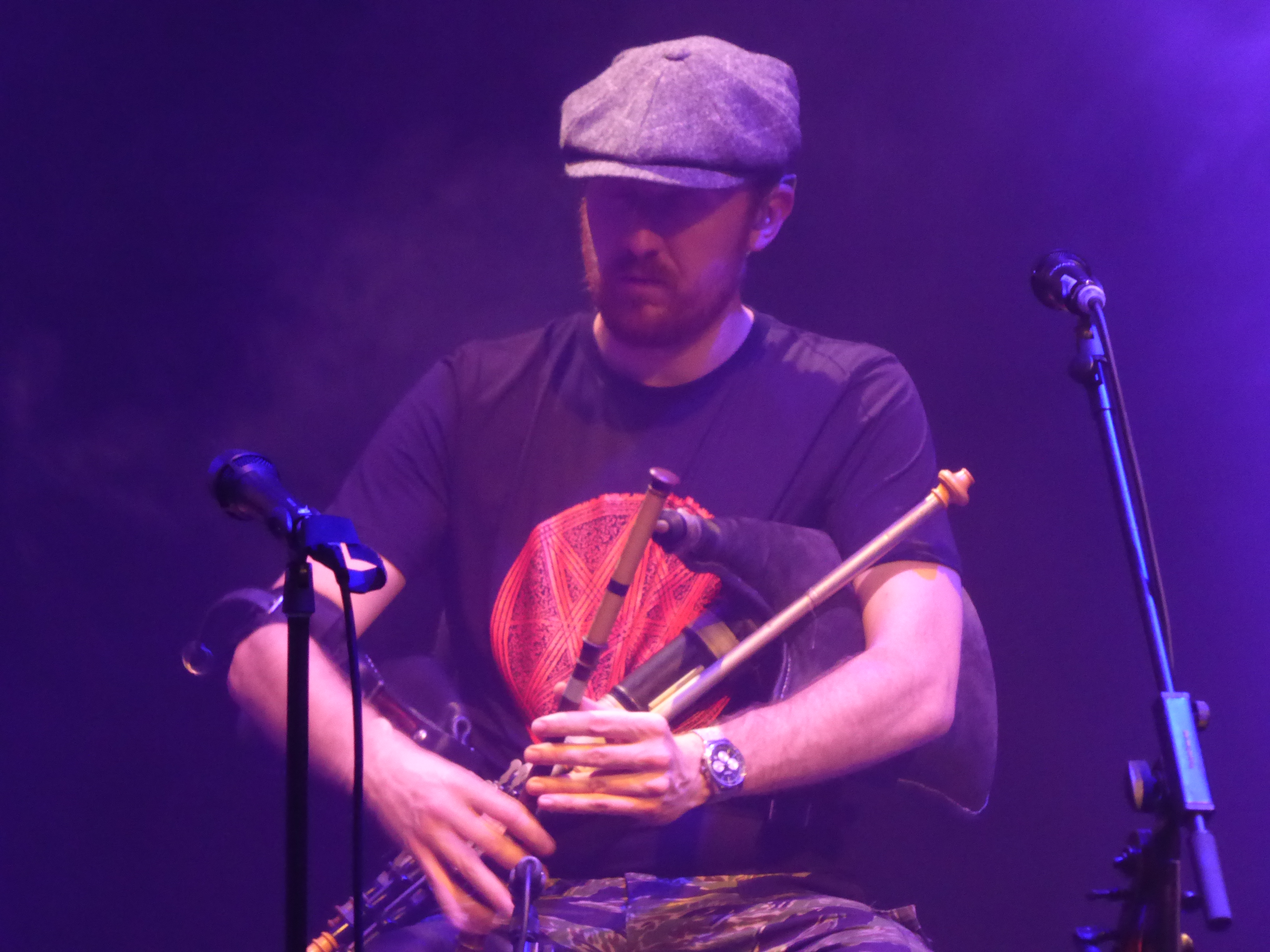 Afro Celt Sound System, Barbican, London, England, October 2016